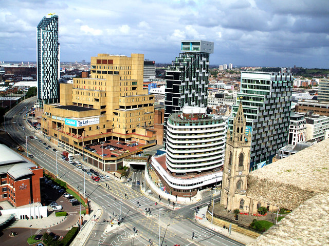 Liverpool Commercial District, Liverpool, England, UK